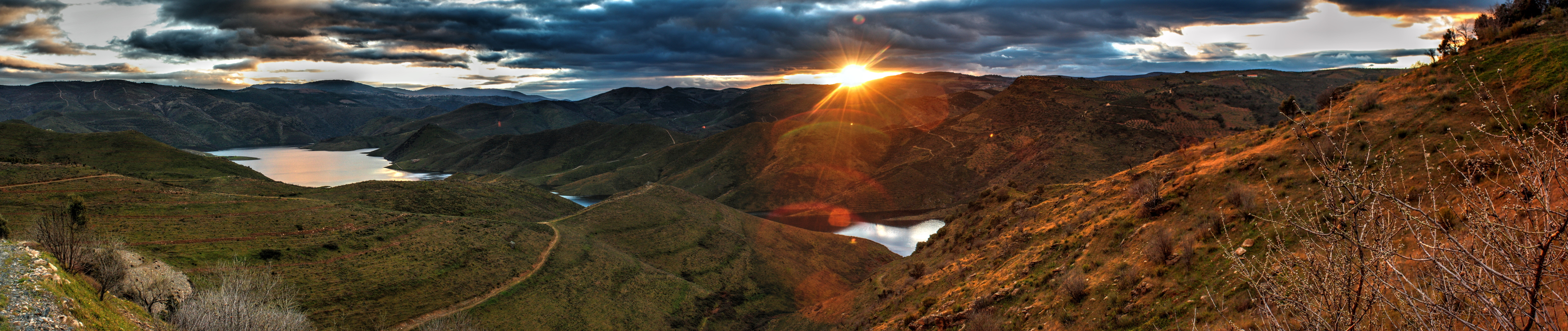 Sunset over the Sabor river, after the construction of the dam. This is a photography of a Site of Community Importance in Portugal with the ID: PTCON0021. Natura2000 entry, EEA entry